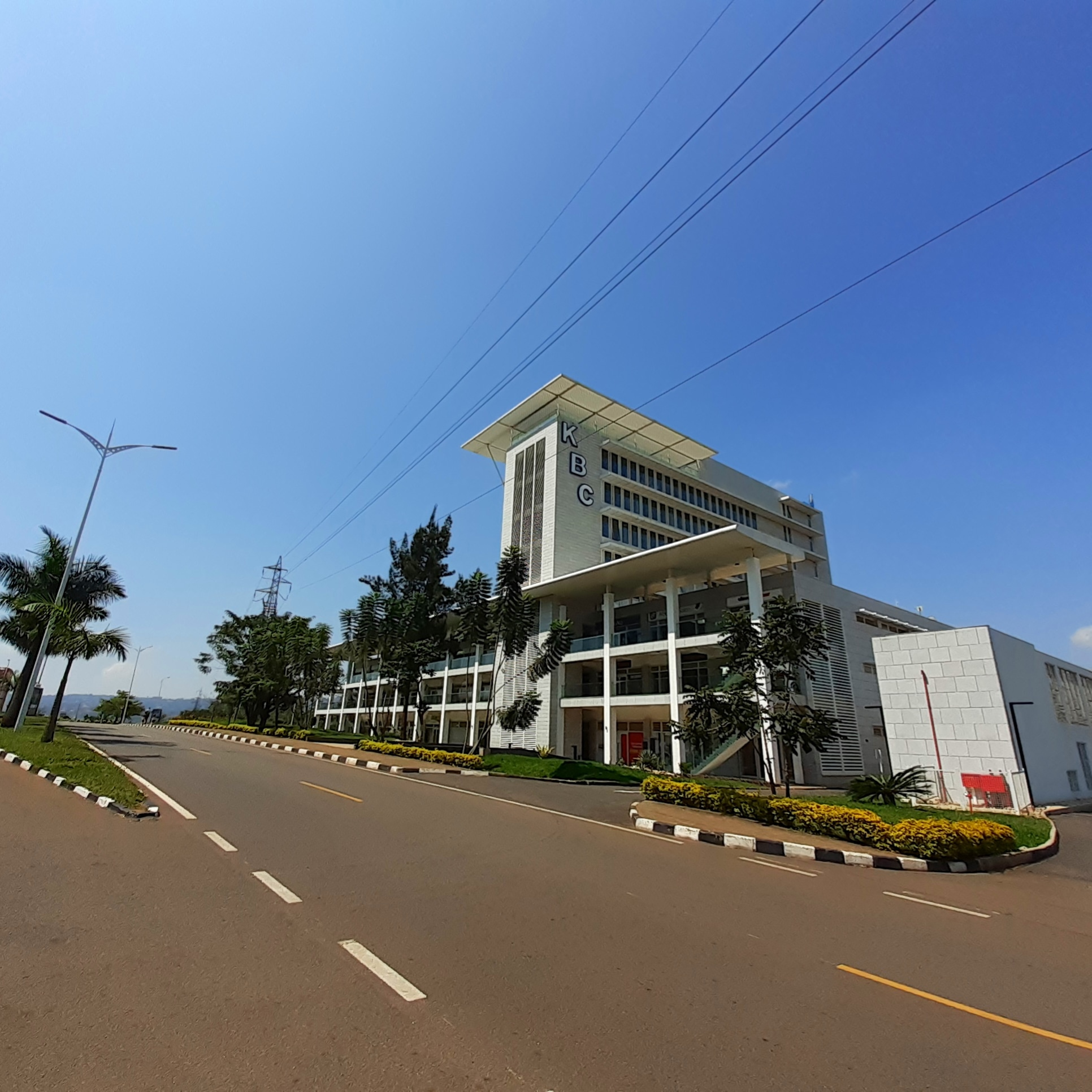 Kigali, Rwanda, kbc,street, Africa This is an image with the theme "Africa on the Move or Transport" from: Rwanda